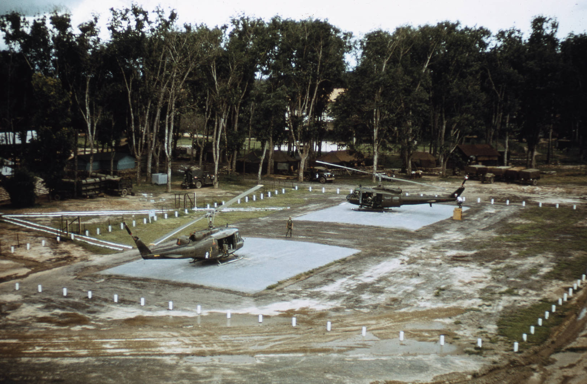 Two helipads covered with T17 membrane, constructed at Dau Tieng by C Company, 588th Engineer Battalion.